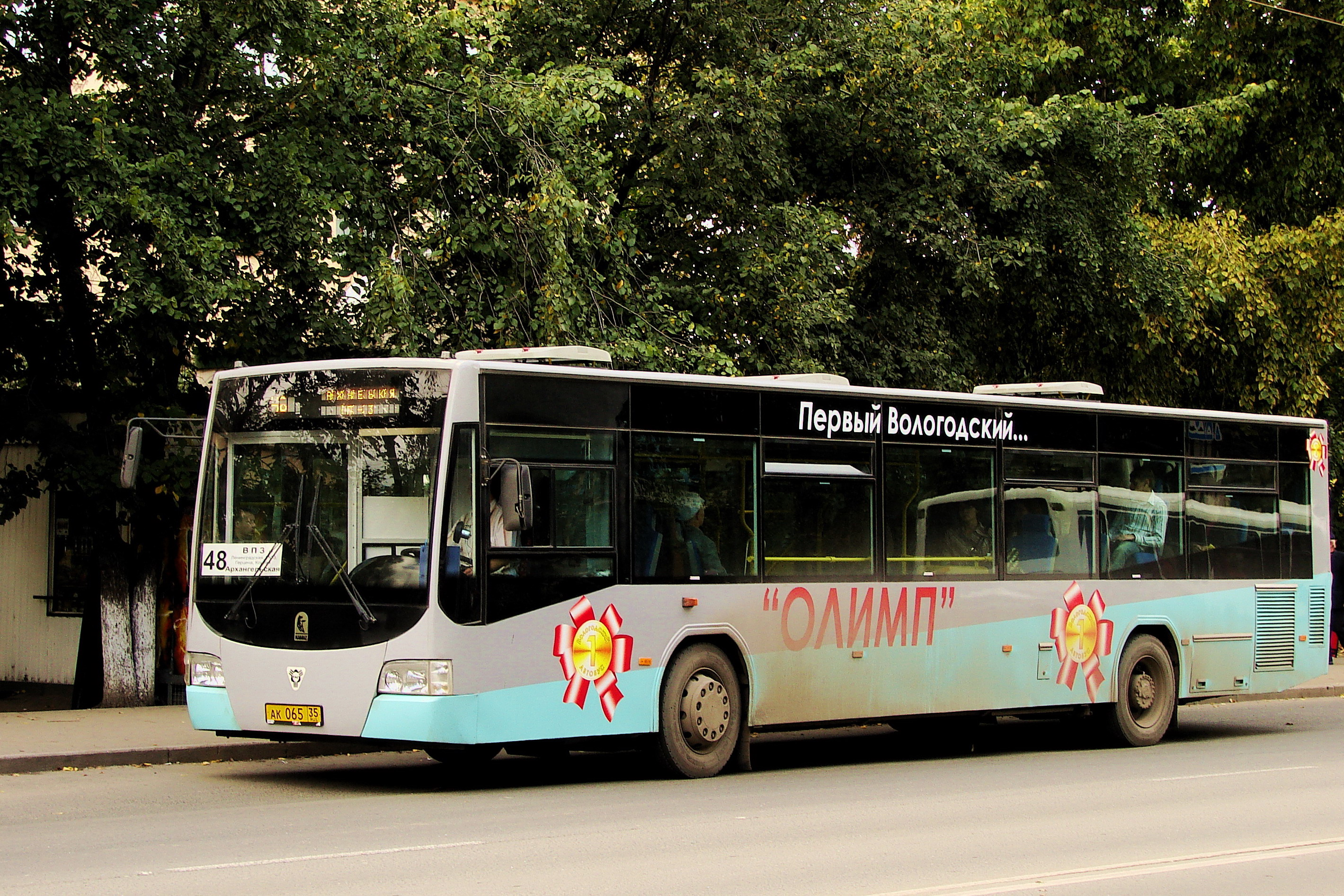 VMZ «Olimp» bus in Russia, Vologda